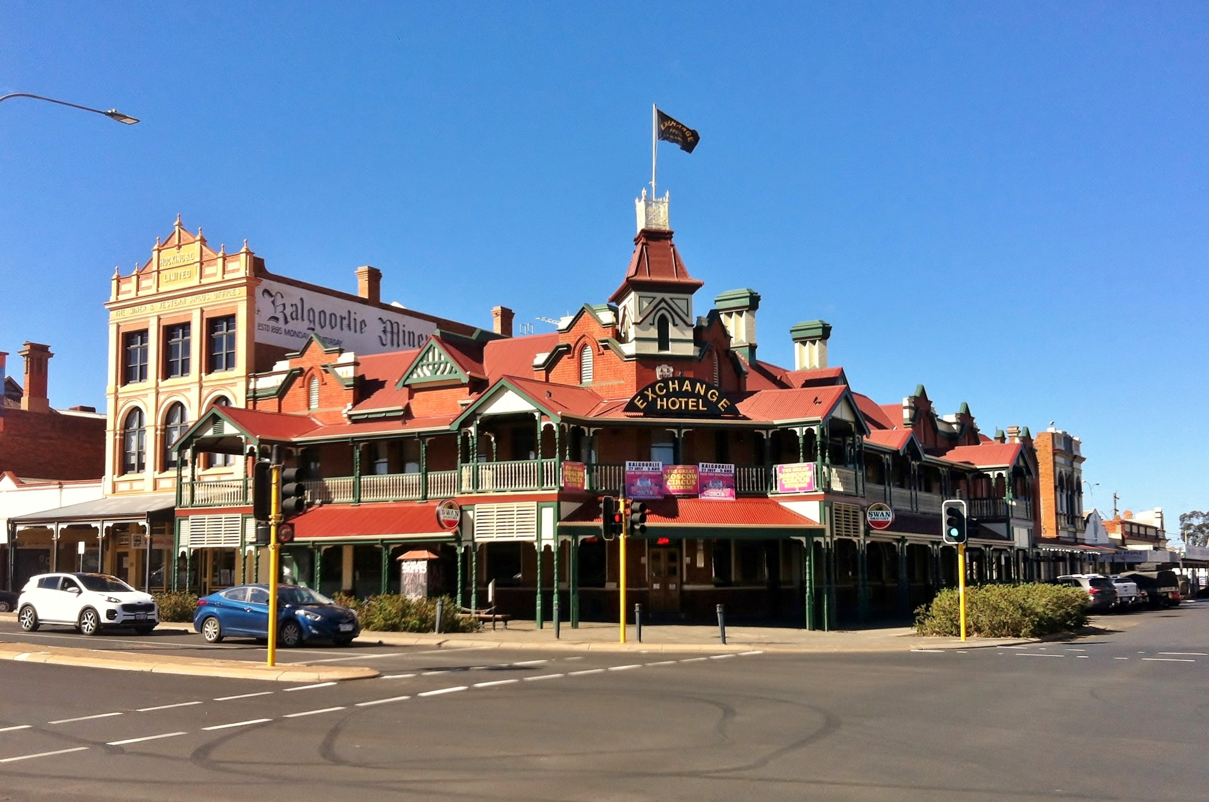 View of the Exchange Hotel, cnr Hannan and Maritana Streets, Kalgoorlie, Western Australia